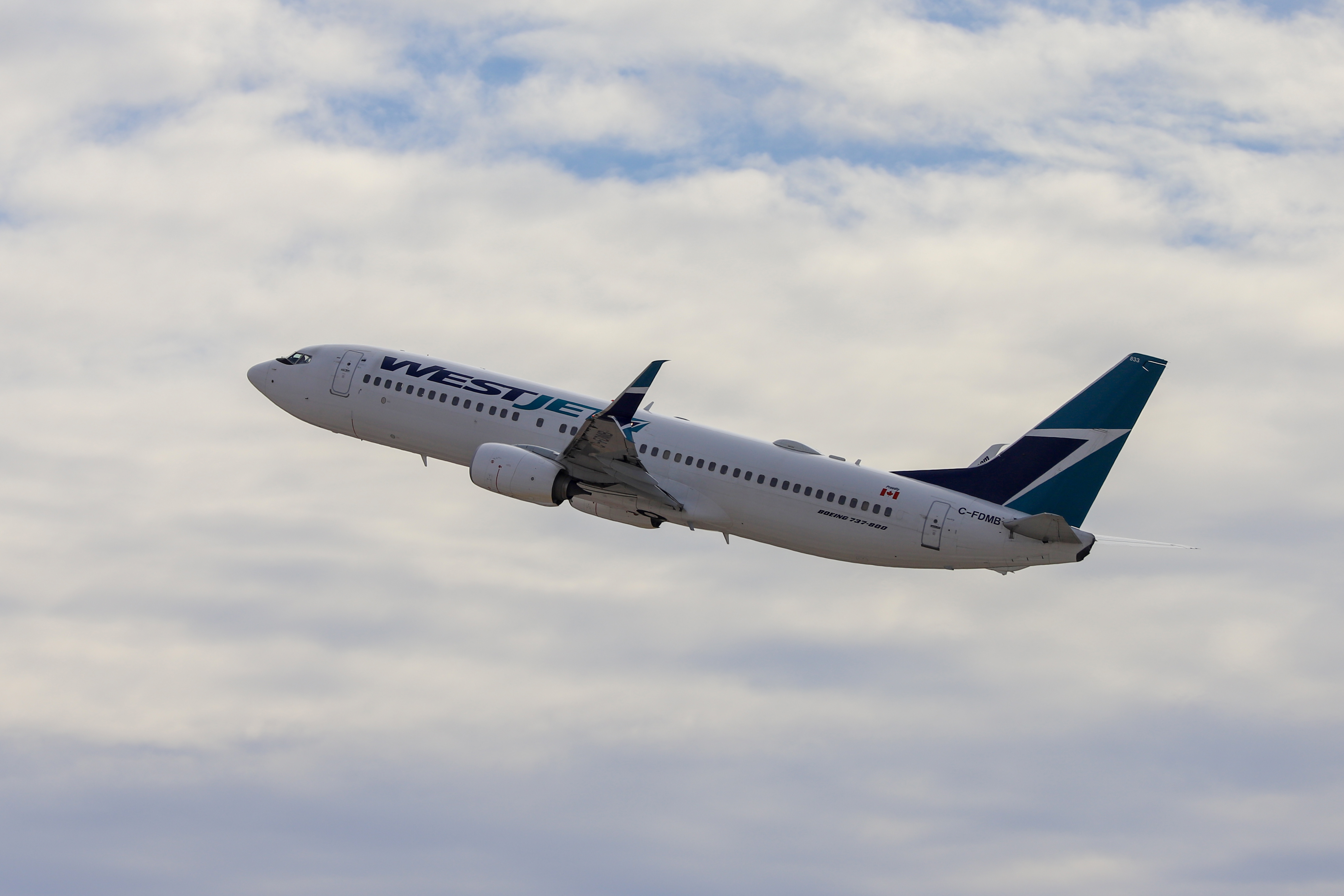 A WestJet 737-800 departing from Phoenix Sky Harbor International Airport.